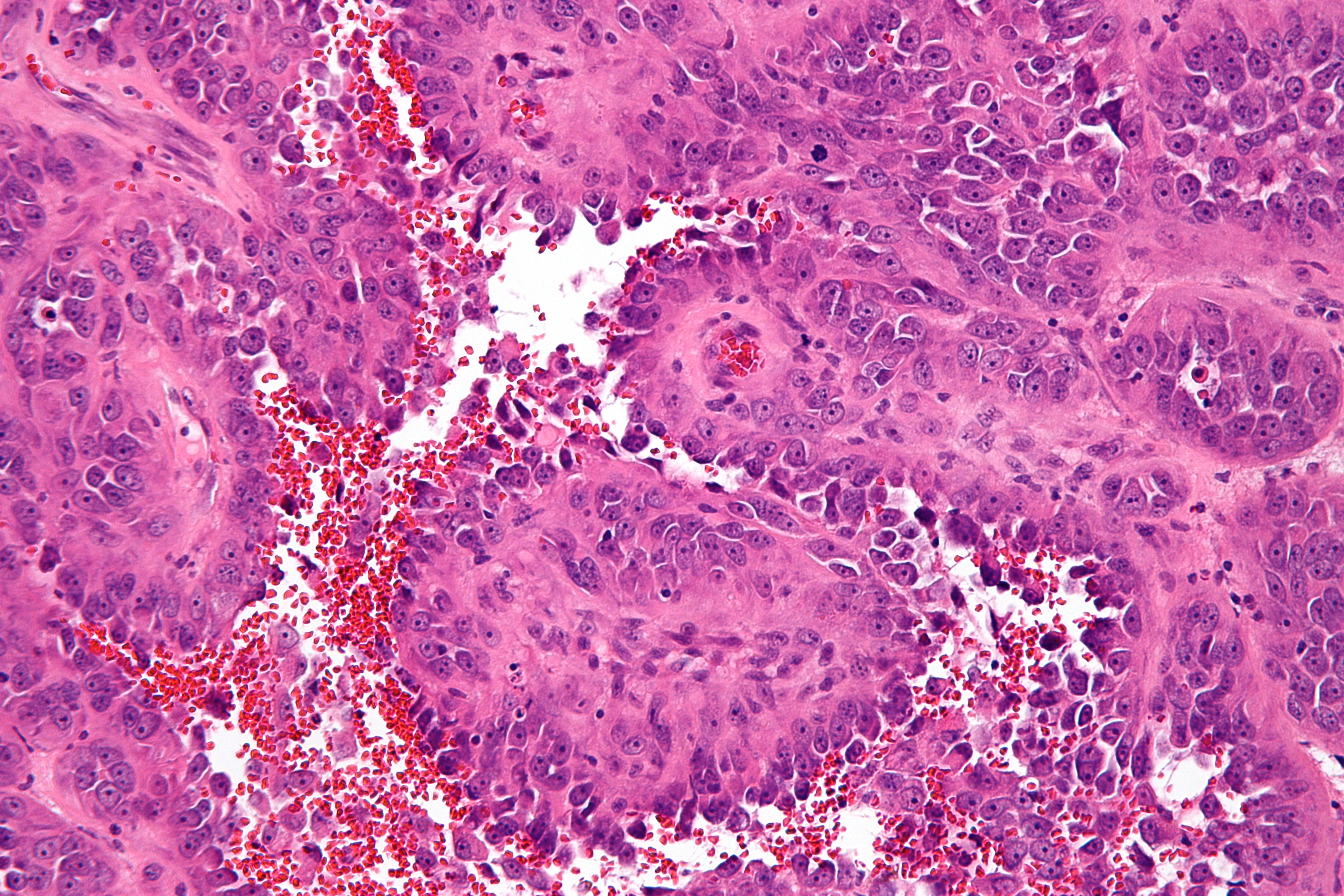 High magnification micrograph or an epithelioid angiosarcoma. H&E stain. The images show abundant small blood vessels lined by large atypical endothelial cells. Mitoses, including some atypical forms, are present. Related images Very low mag. Low mag. Intermed mag. CD31 immunostain intermed mag. High mag. Very high mag.